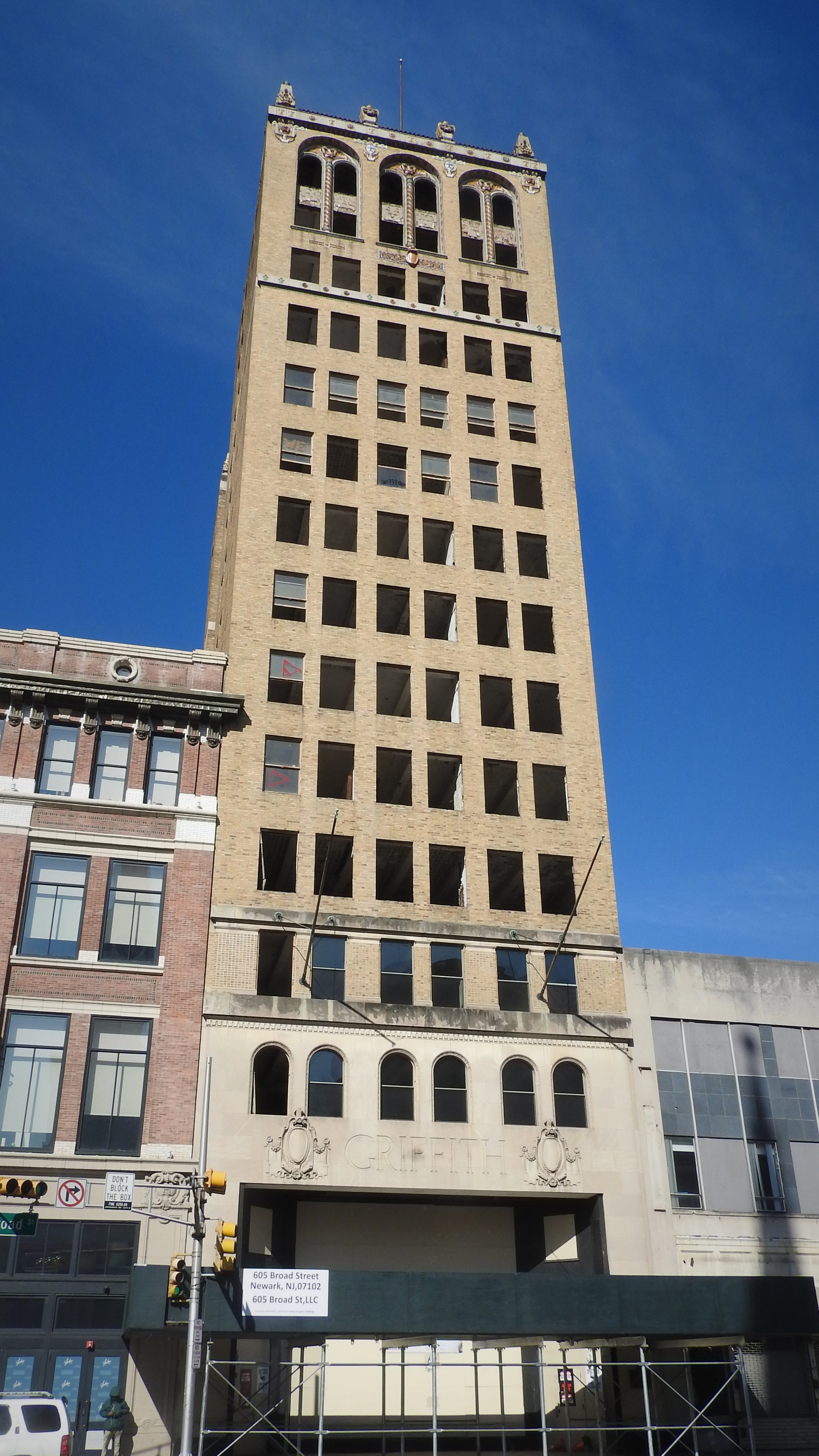 Looking northwest at building under renovation